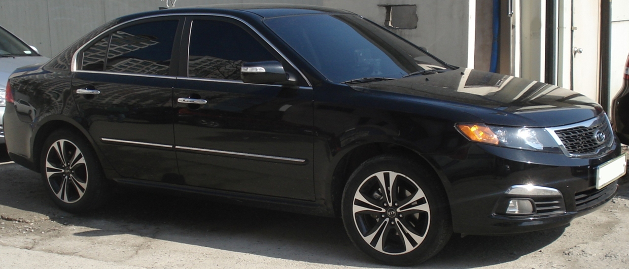 Kia Lotze Innovation